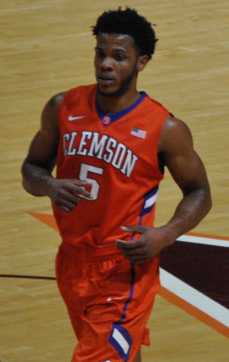 Jaron Blossomgame runs the court for the Tigers at Cassell Coliseum